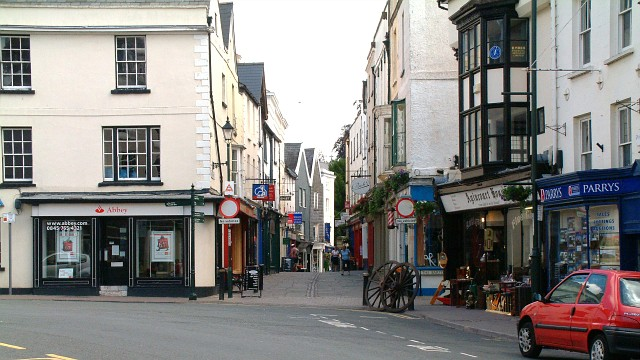 Church Street, Monmouth Church Street, Monmouth from near the junction of Monnow Street and Priory Street. See also image 307856.